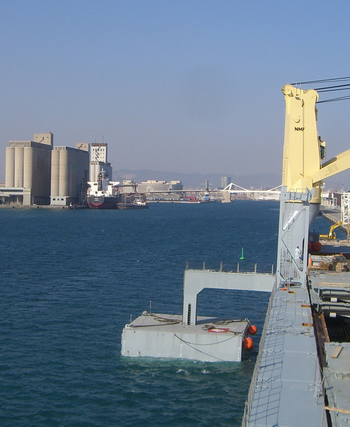 This Ponton is used to increase the stability of a vessel during heavy lift operations